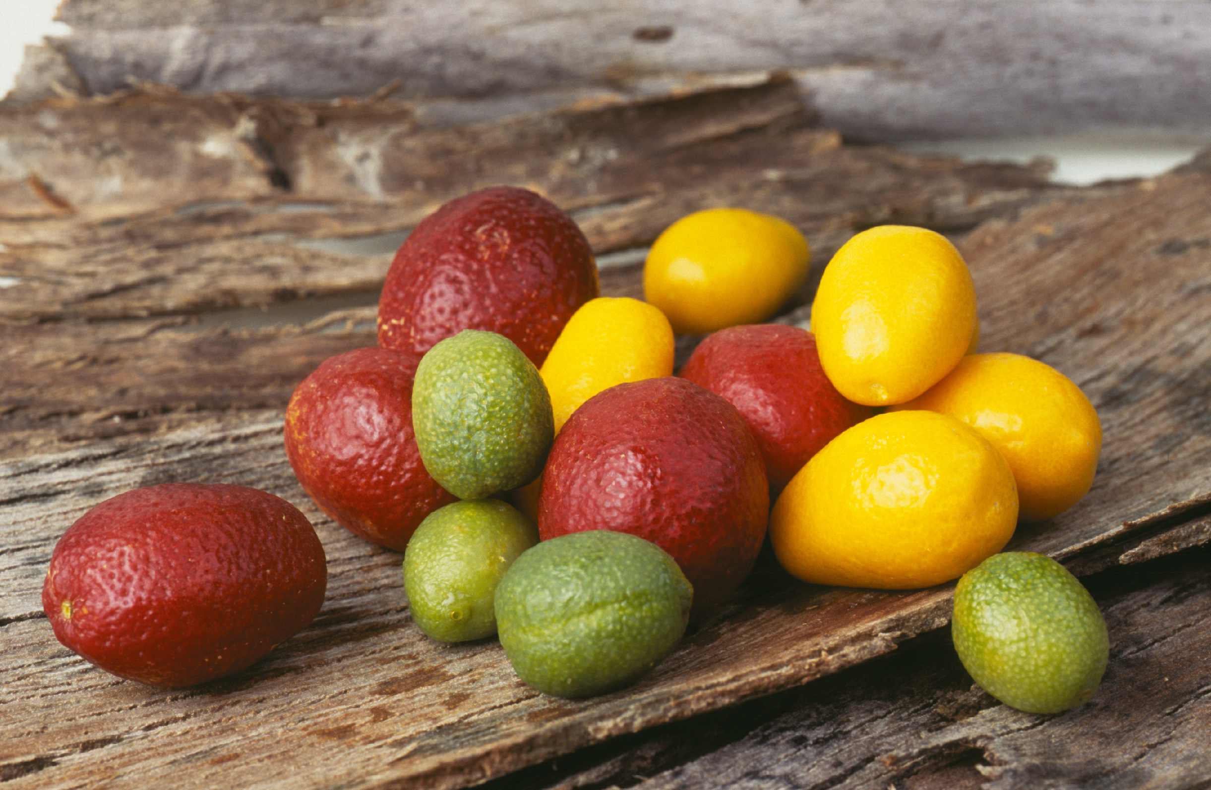 CSIRO Plant Industry and Australian Native Produce Industries, a company that grows and sells Australian native food, have developed plantations of new lime varieties bred from native limes. The new varieties include the Blood Lime, a cross between a mandarin and a Finger Lime and characterised by its blood red rind, flesh and juice; the Sunrise Lime, a pear shaped orange fruit that makes an excellent marmalade; and the Outback Lime, a cultivar of the Desert Lime with small green, juicy fruits which ripen at Christmas time.